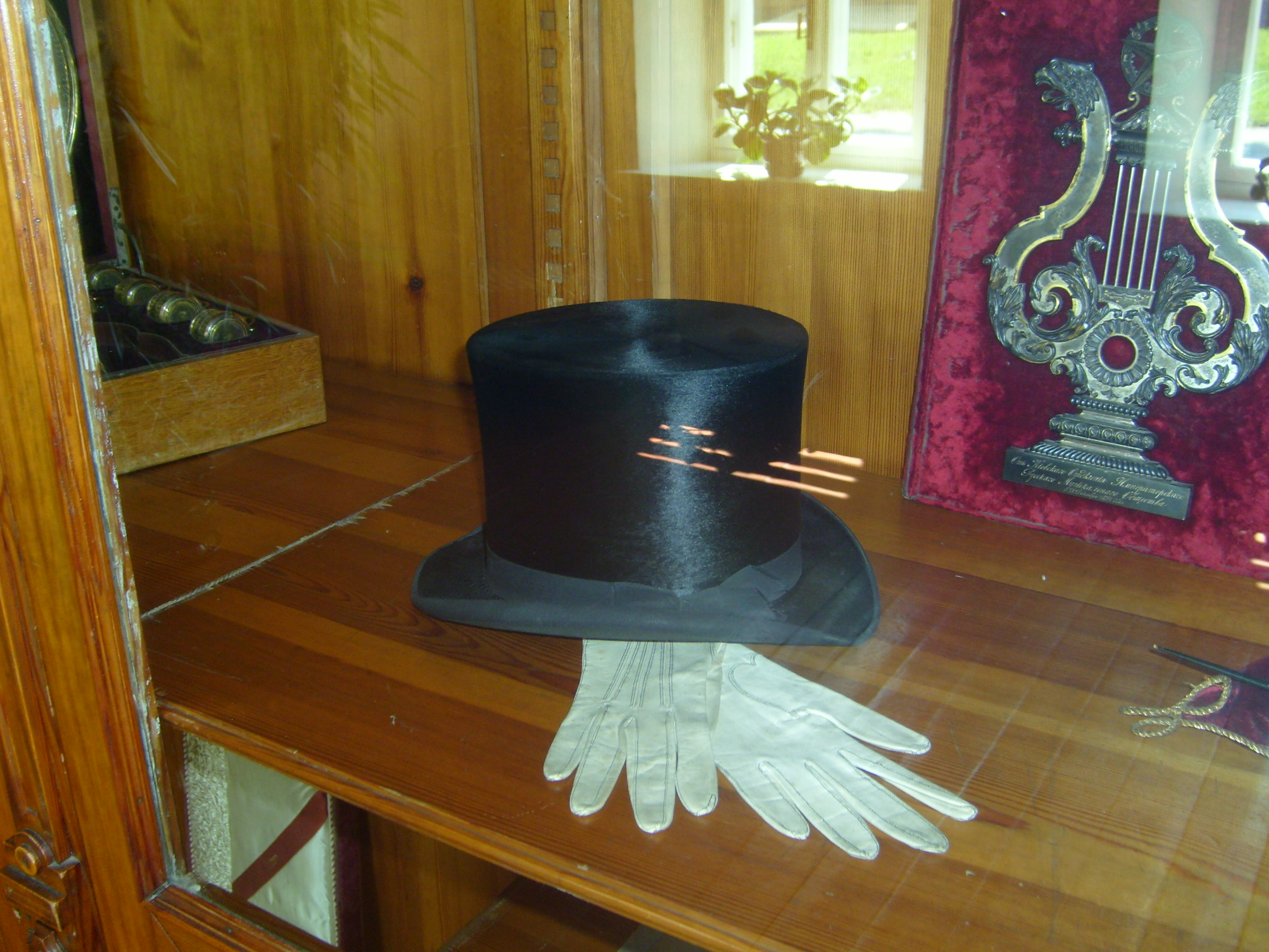 Top hat and gloves of Tchaikovsky, in Tchaikovsky House Museum in Klin